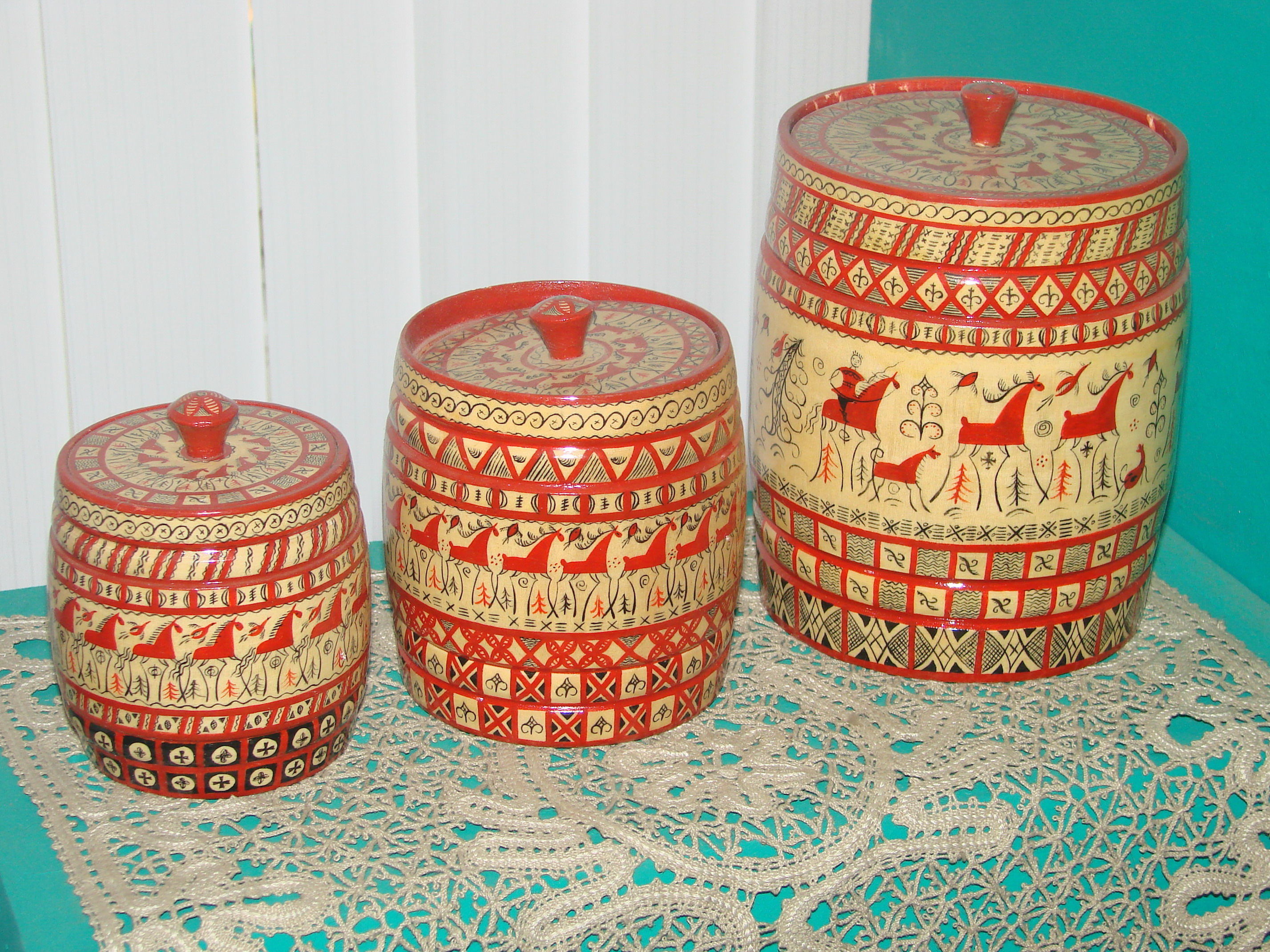 Russia, Vologda PTO museum